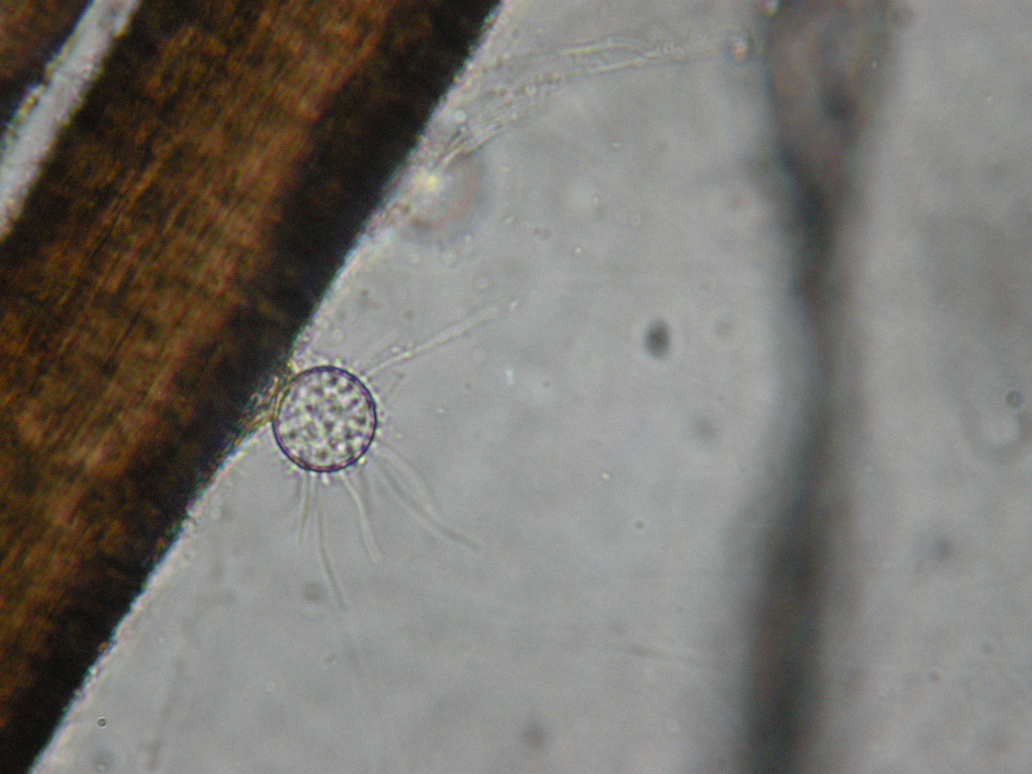 Rhizophydium keratinophilum growing on human hair placed in a muck sample collected from Panzner Wetlands, Copley, Summit County, Ohio, USA.